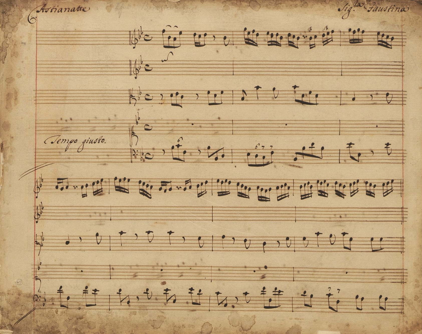 Manuscript music for Astianatte, [ca. 1727], by Giovanni Bononcini (1670-1747). First page. M1505.B724 A85 1727, Houghton Library, Harvard University